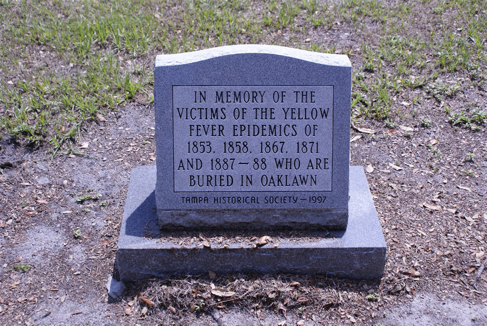 Marker at oaklawn cemetery, Tampa, Florida.